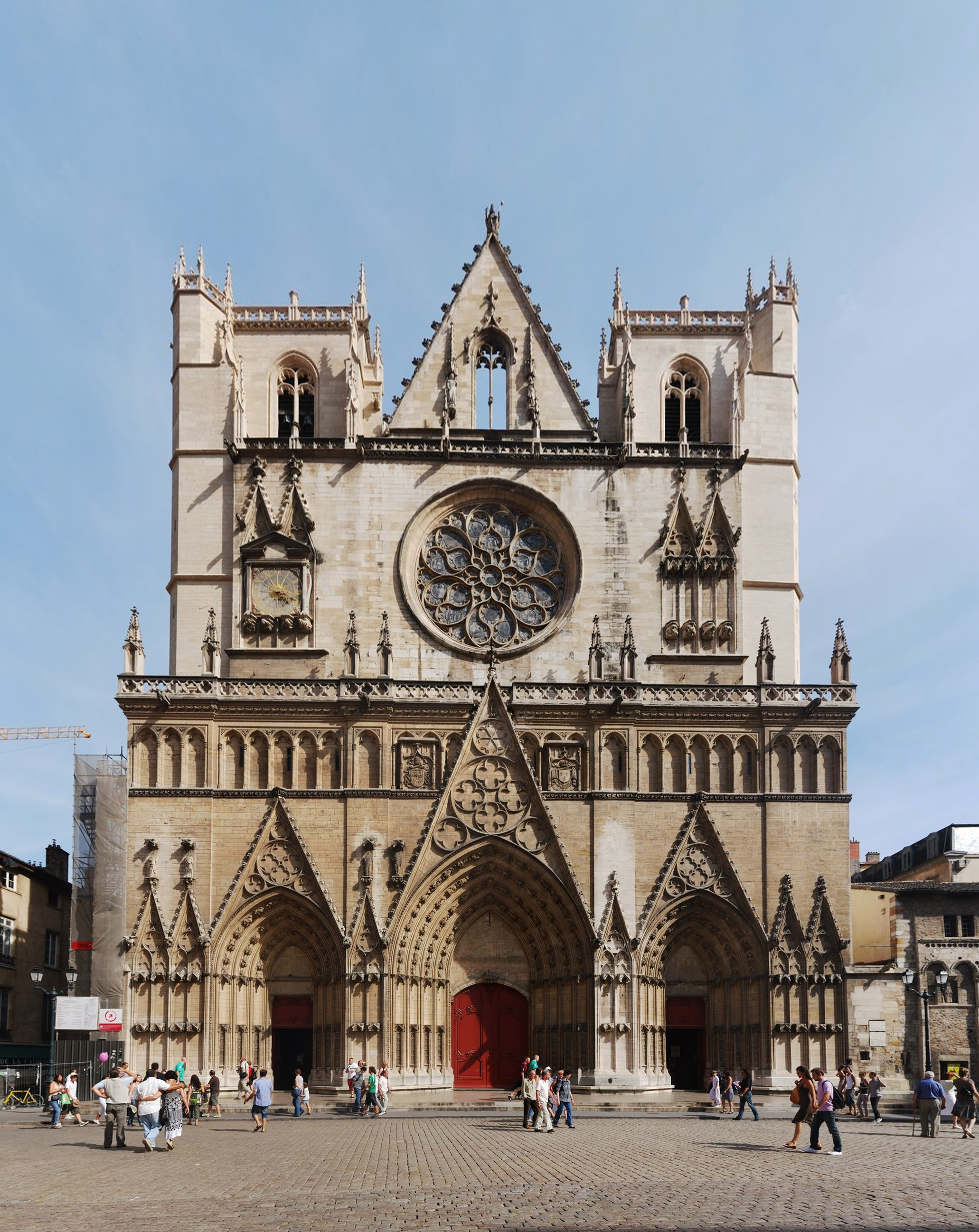 Lyon Cathedral